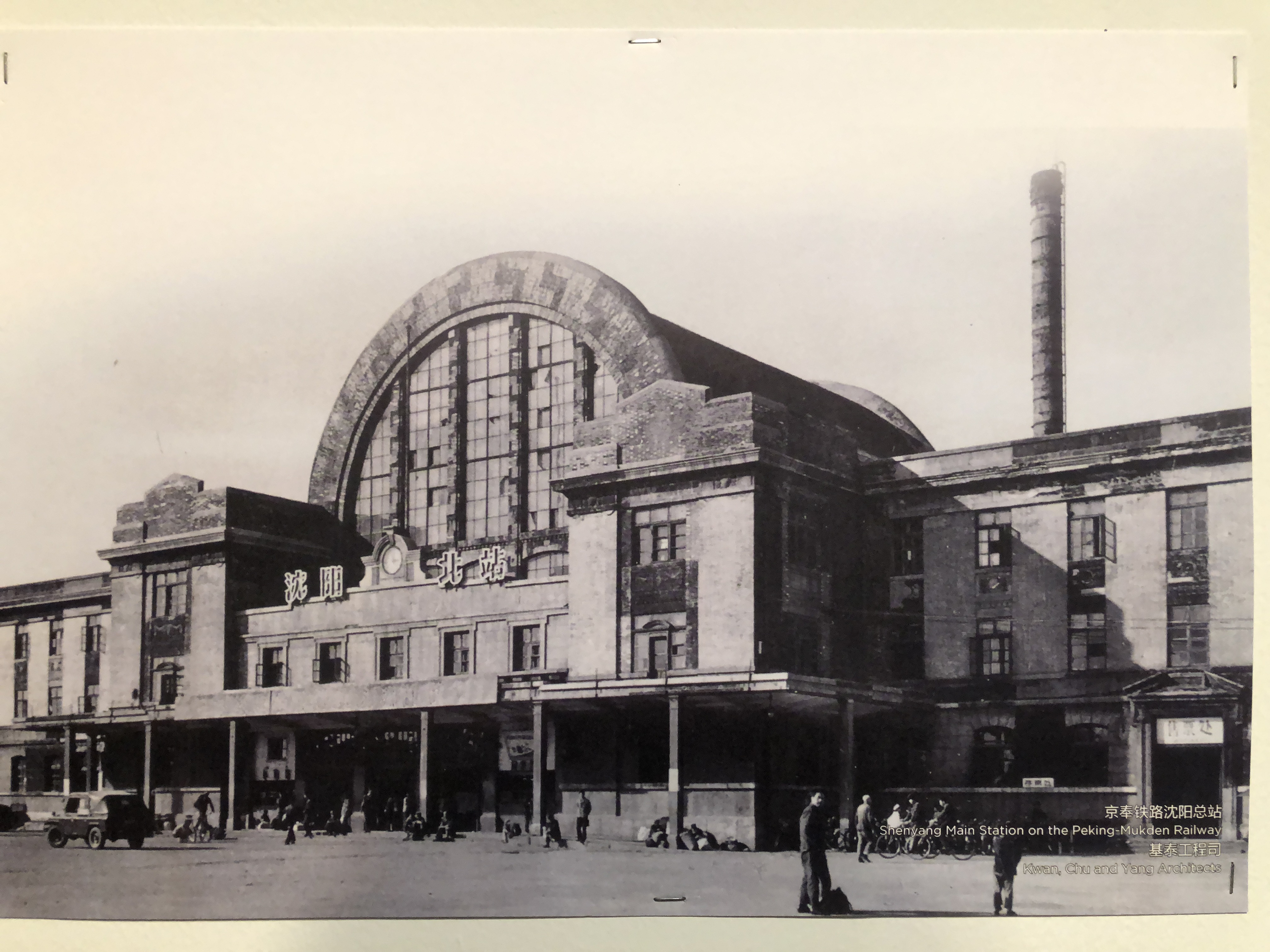 Historic Image of Shenyang North Railway Station 中文（中国大陆）: 沈阳北站历史照片